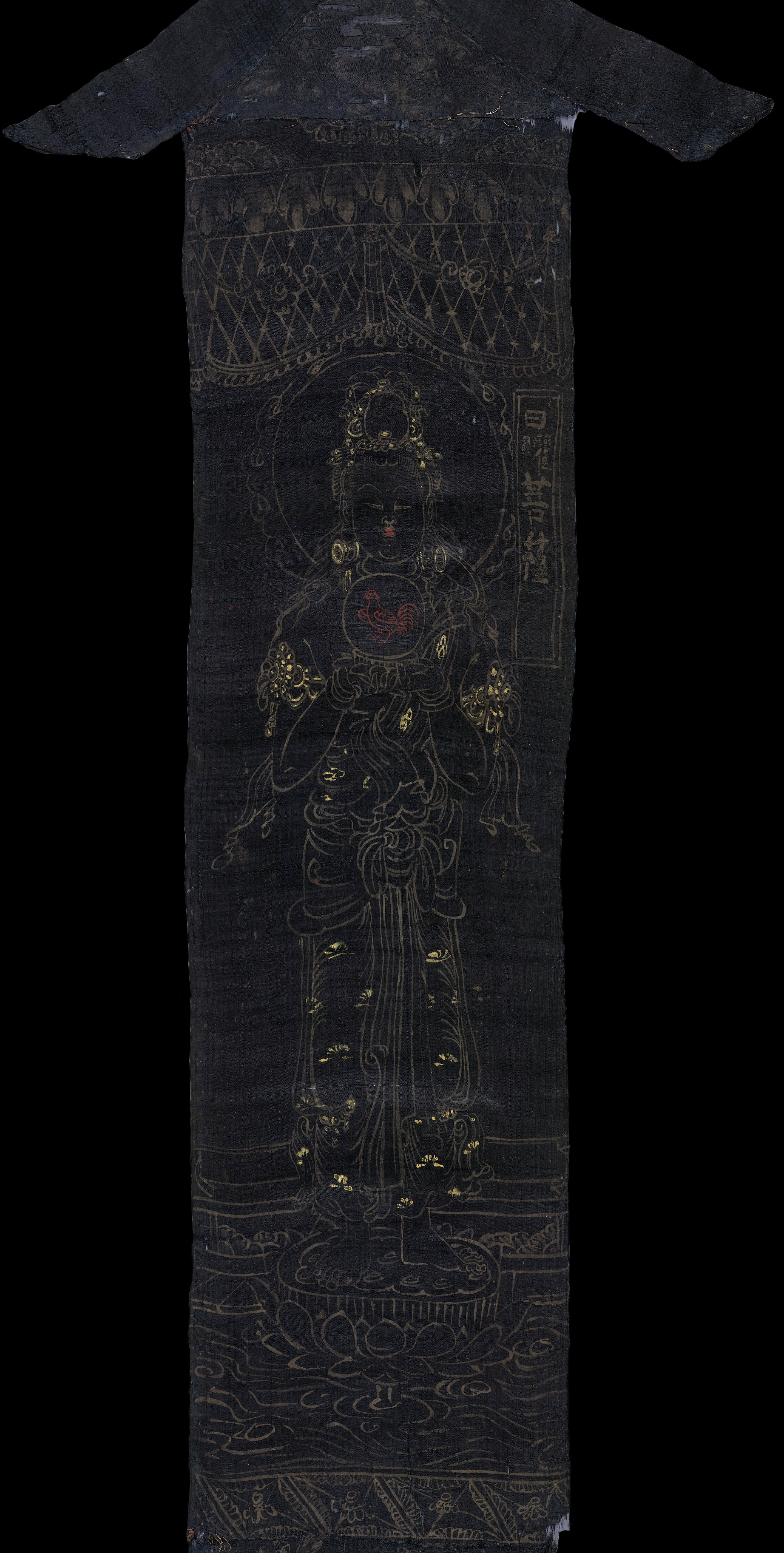 Suryaprabha. Detail of banner, Tang dynasty, 8th century, Dunhuang. British Museum. One of the oldest images of Suryaprabha.